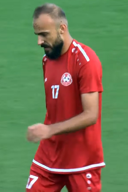 Ahmad Hijazi with Akhaa Ahli Aley during the 2019-20 Lebanese Premier League game against Ahed